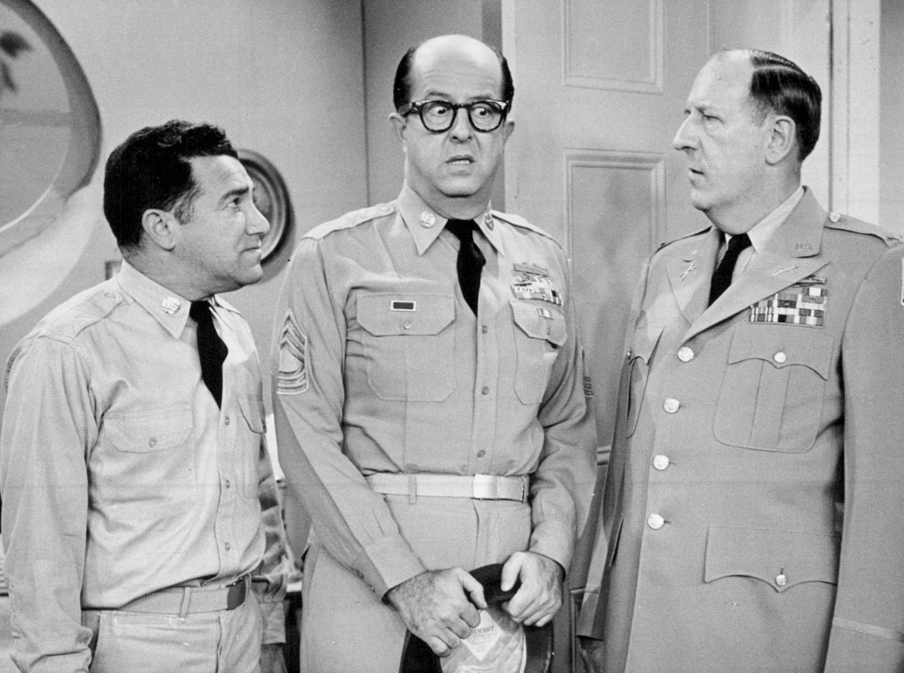 Photo of Billy Sands as Paparelli, Phil Silvers as Bilko and Paul Ford as Colonel Hall from The Phil Silvers Show. In this episode, the Colonel becomes the victim of one of Bilko's schemes and takes him and Paparelli to task.